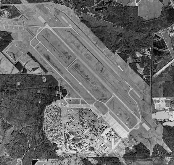 USGS digital orthophoto of Columbus Air Force Base in Columbus, Mississippi, United States.